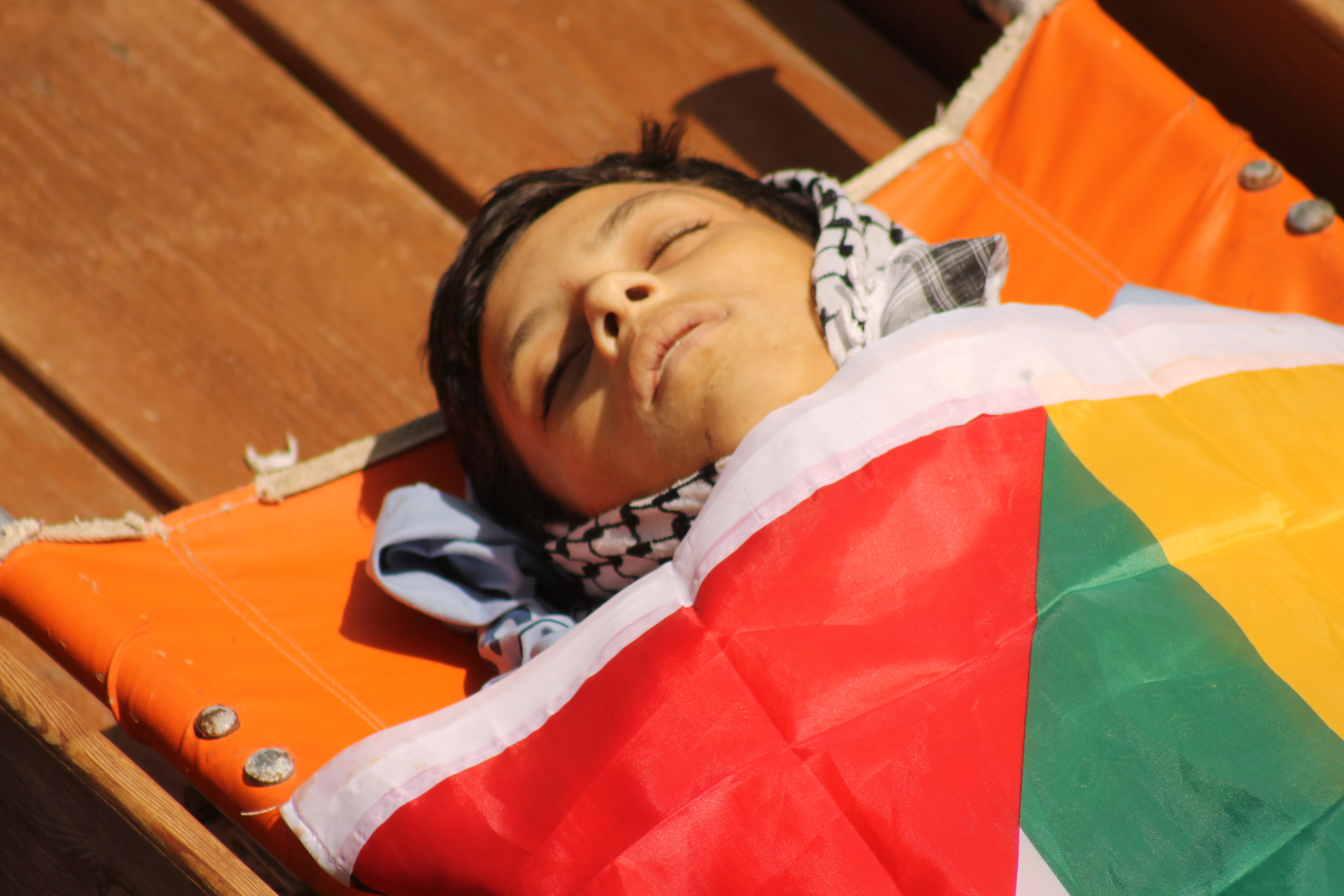 The body of 13 years old Mohammed Dudin killed by the IDF in Dura during operation Brother’s Keeper, June 2014